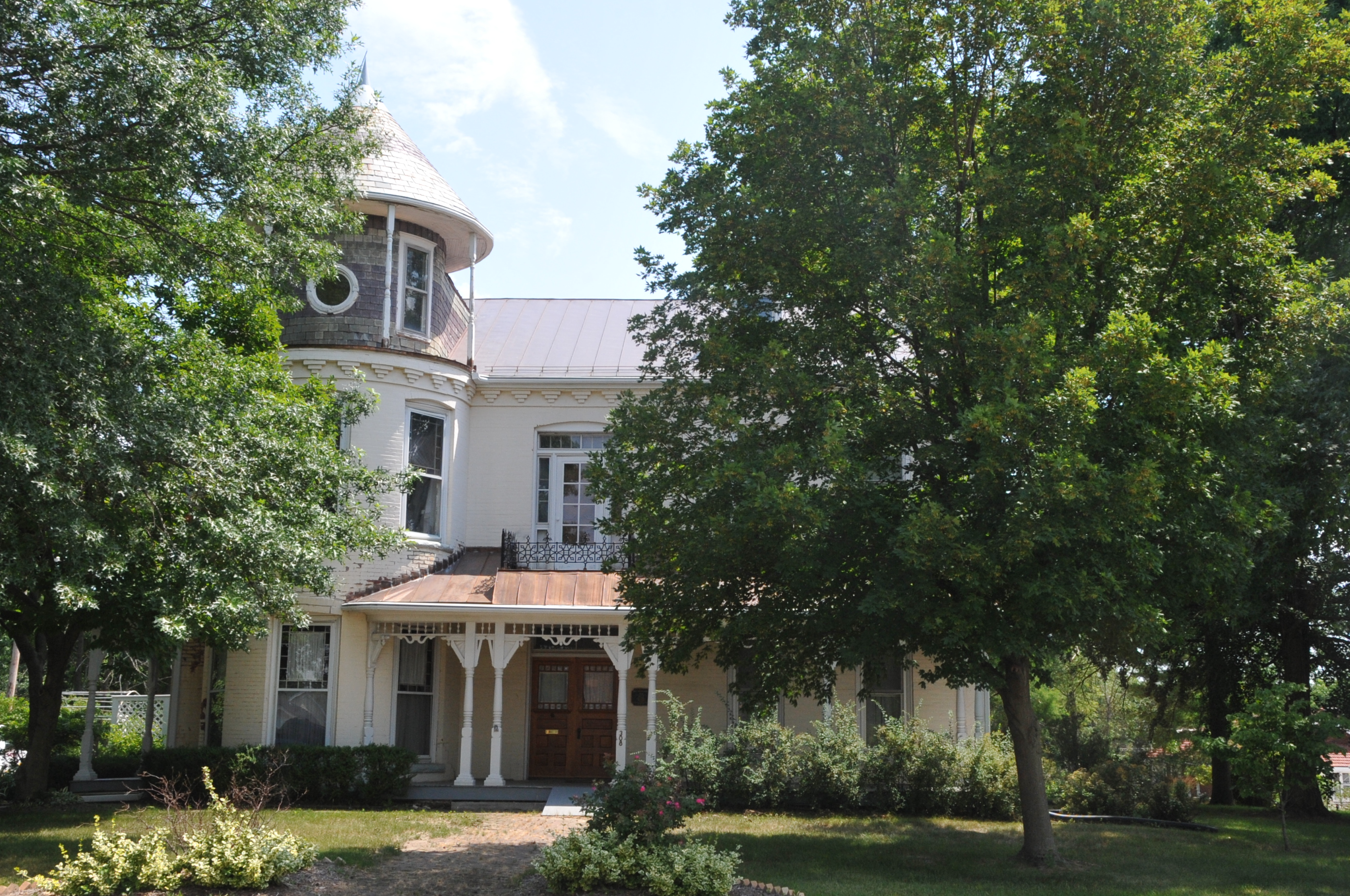 BUILT IN 1866 THIS VICTORIAN QUEEN ANNE HOUSE FOR ERNST SCHOWENGERDT AND HIS WIFE ELESEBET HAS BEEN IN THE SAME FAMILY UNTIL THE LAST GRANDCHILD DIED IN 2002 AT WHICH TIME THE HOUSE CAME TO THE WARREN HISTORICAL SOCIETY